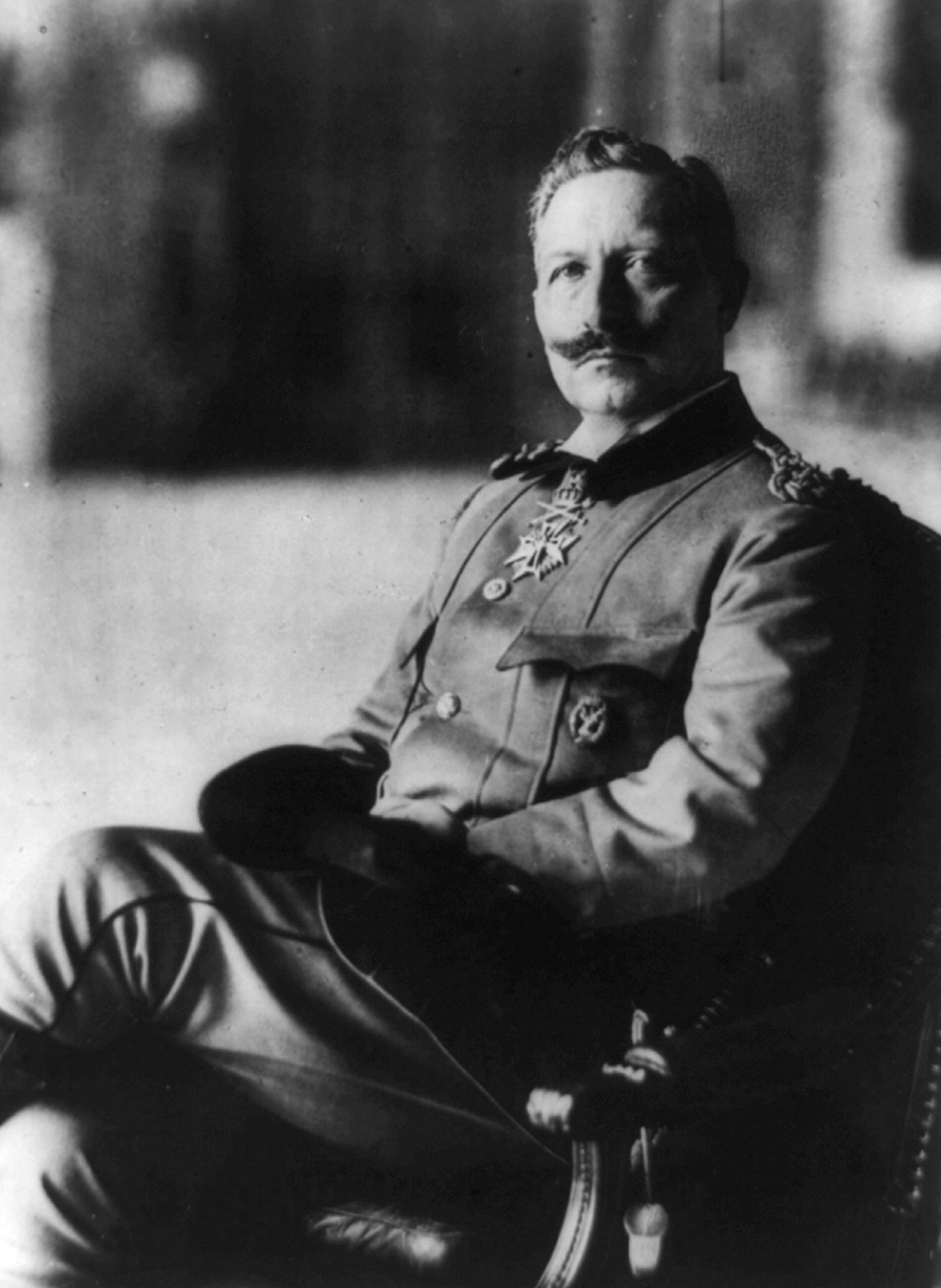 German emperor Wilhelm II, three-quarter length portrait, seated, facing left. (cropped)